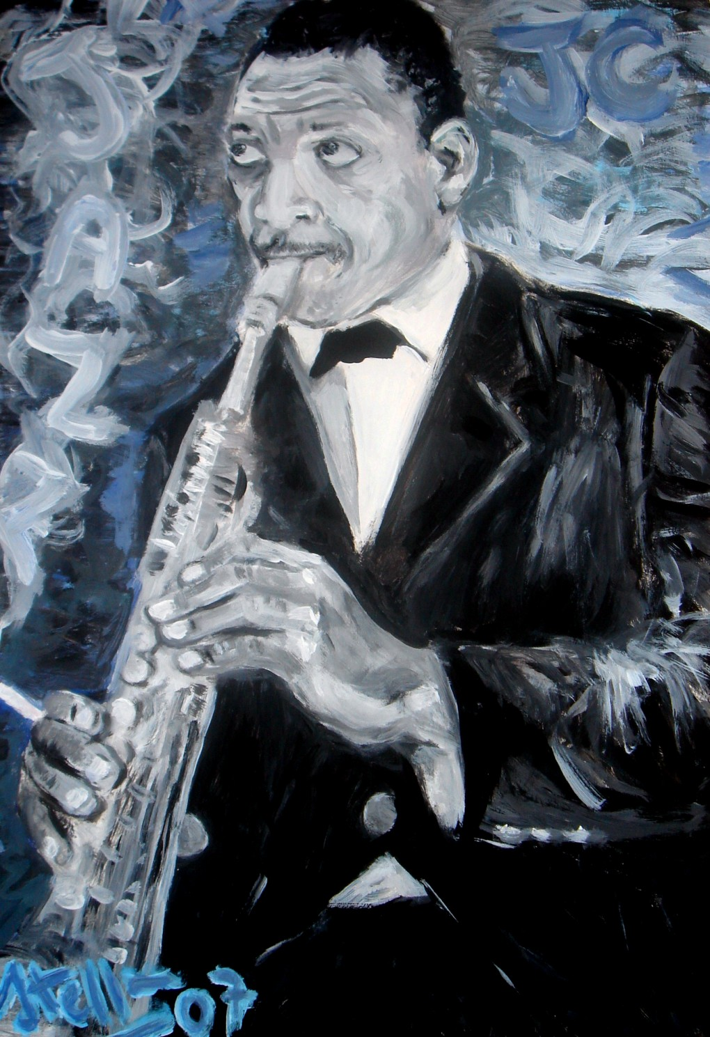 A portrait of John Coltrane by Paolo Steffan (amateur painter, Wikipedia user), 2007.